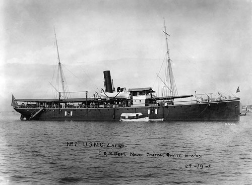 The Zafiro (USNC Zafiro or USS Zafiro, depending on sources).